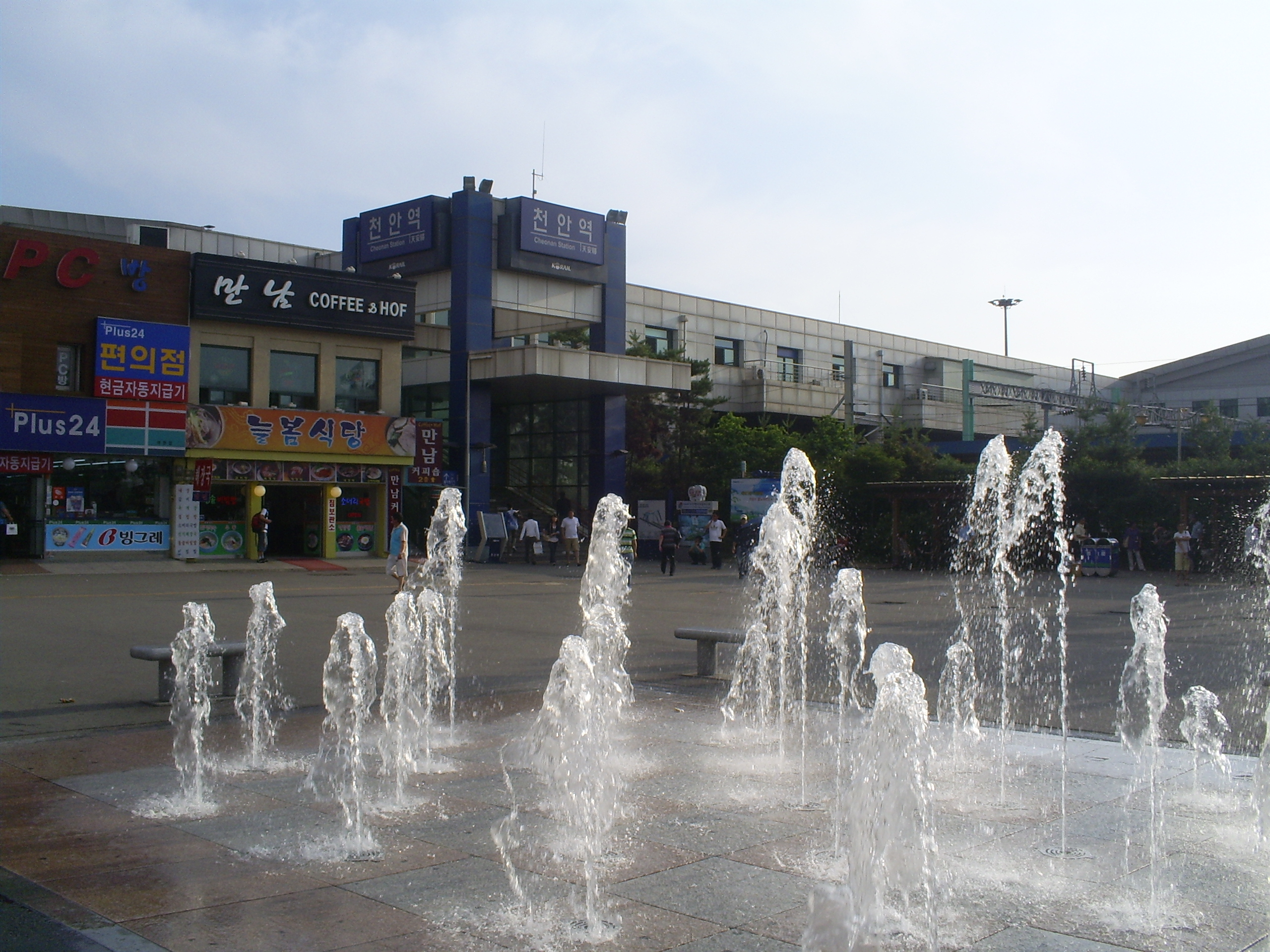 KORAIL Gyeongbu Line Janghang Line Seoul Subway Line 1 Cheonan Station